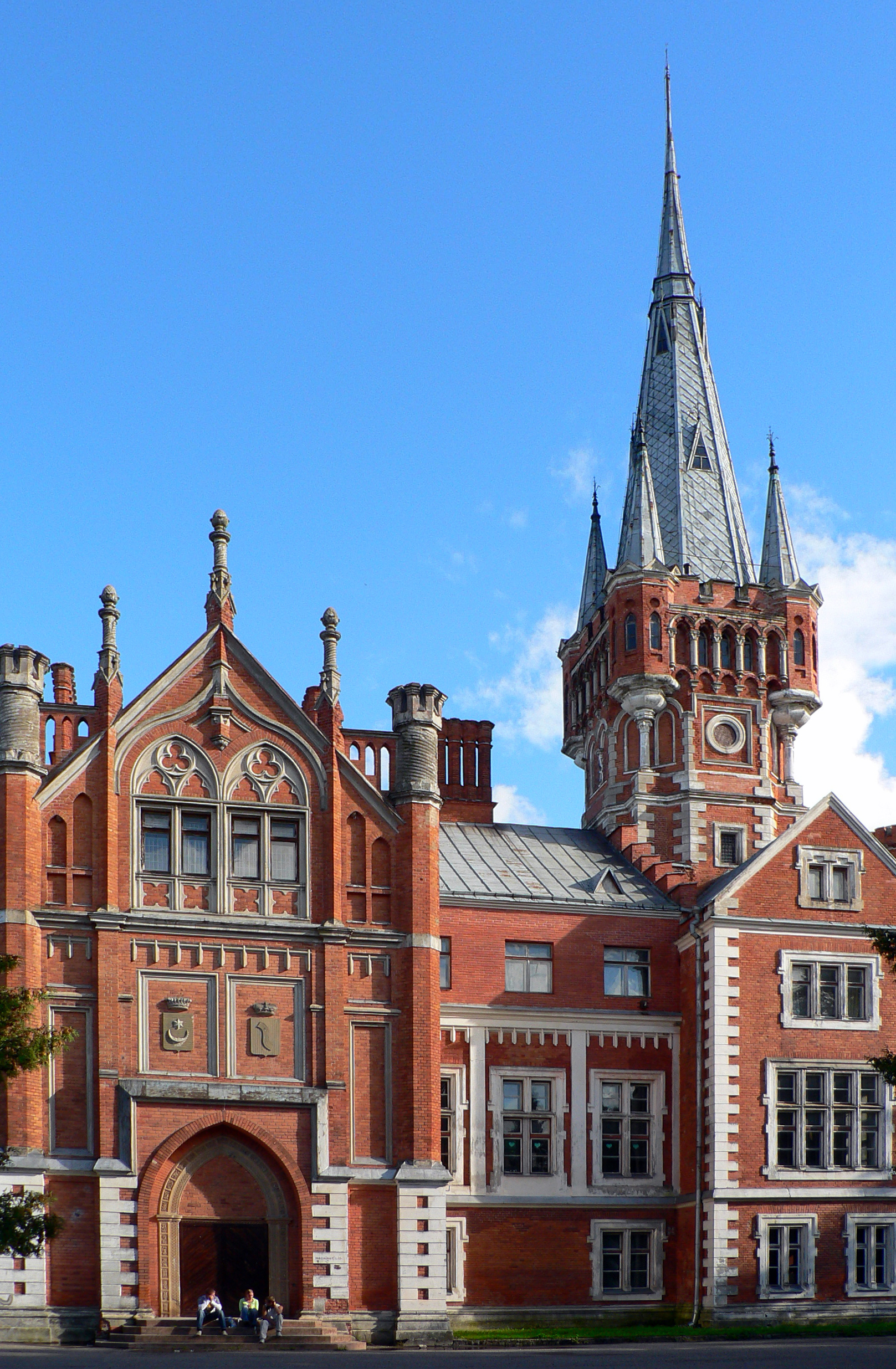 Tyszkiewicz Palace, Lentvaris, Lithuania